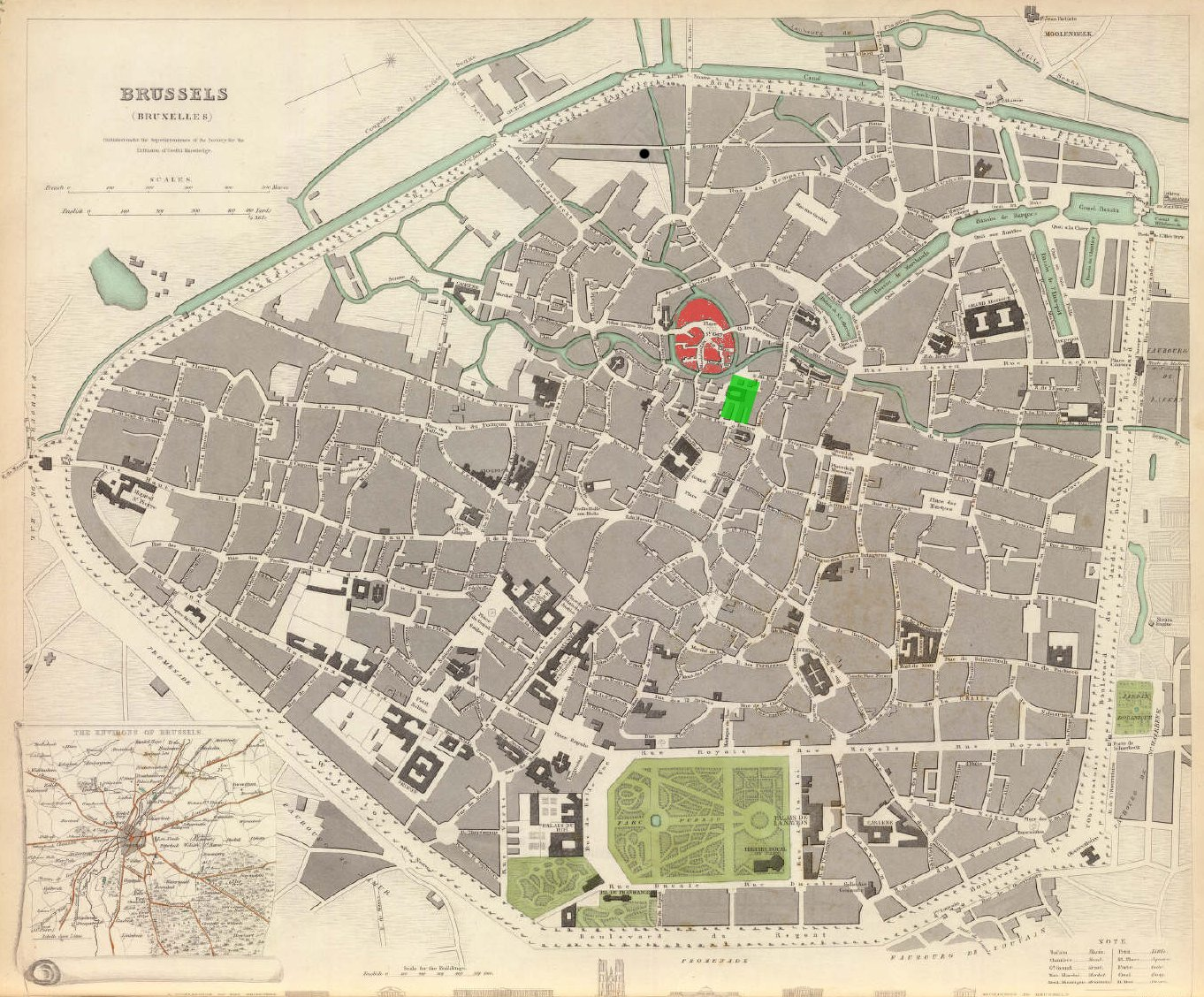 Map of Brussels, 1837. Saint Gaugericus is highlighted in red; Brussels Stock exchange superimposed in green.